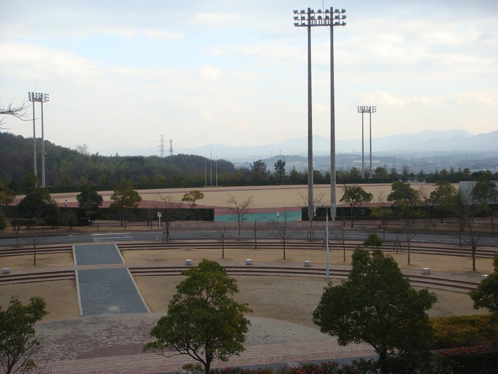 Ayagawa_sports_park